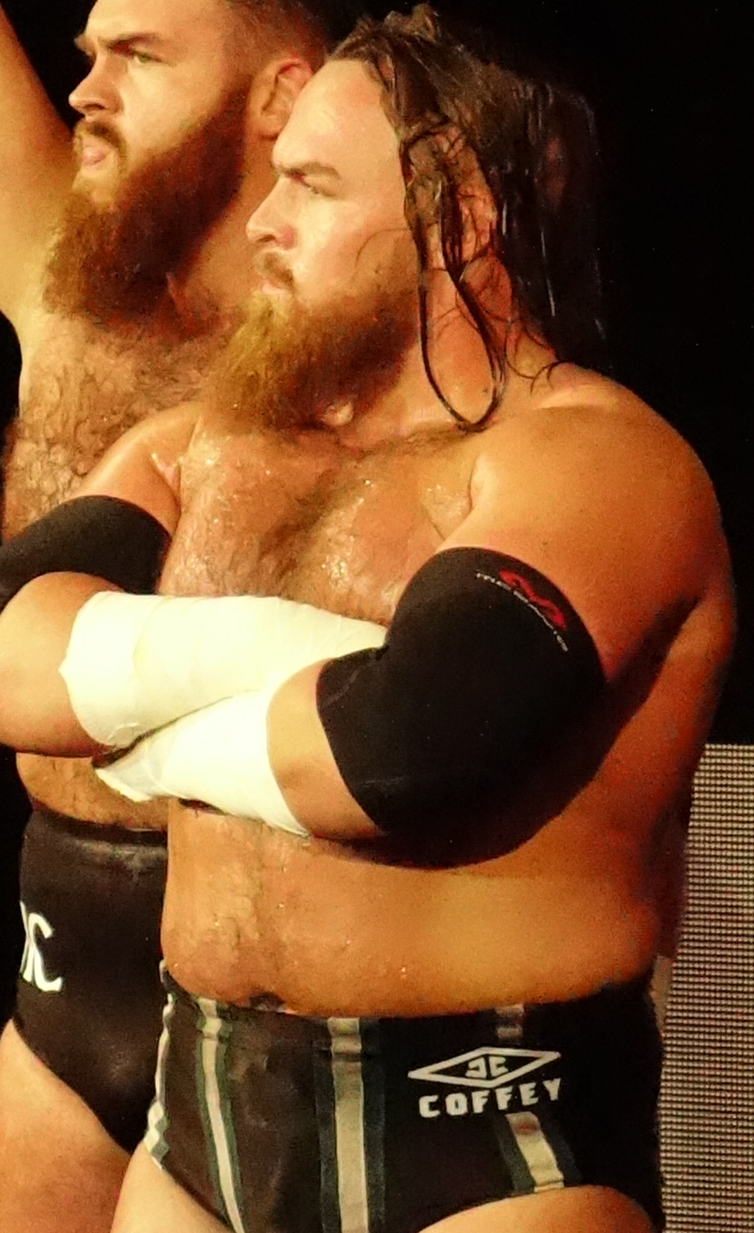 Professional wrestler, Joe Coffey on April 6, 2019 at a WWE event.